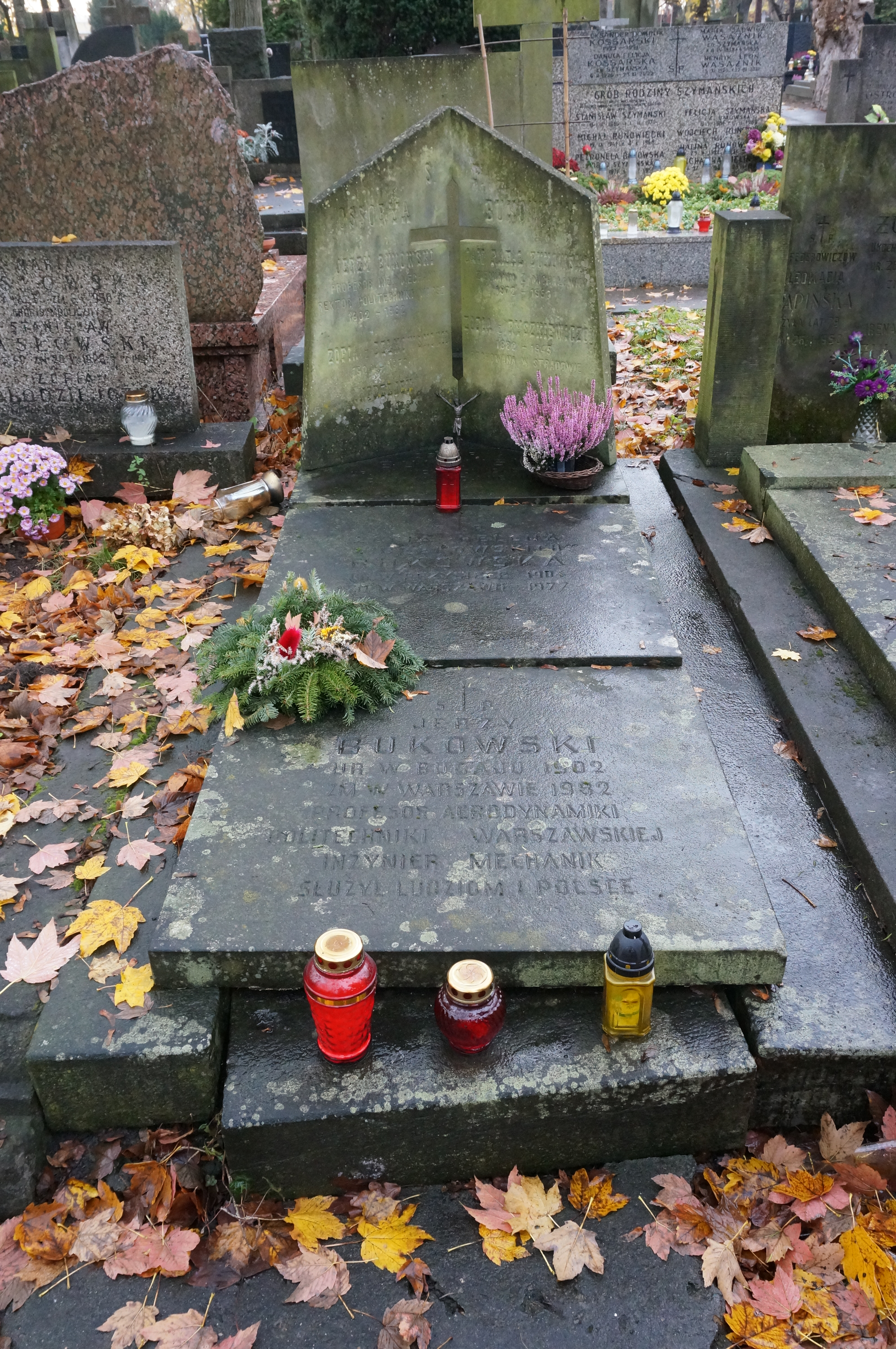 The grave of Jerzy Bukowski at the Powązki Cemetery (section 242, row 3, grave 4)